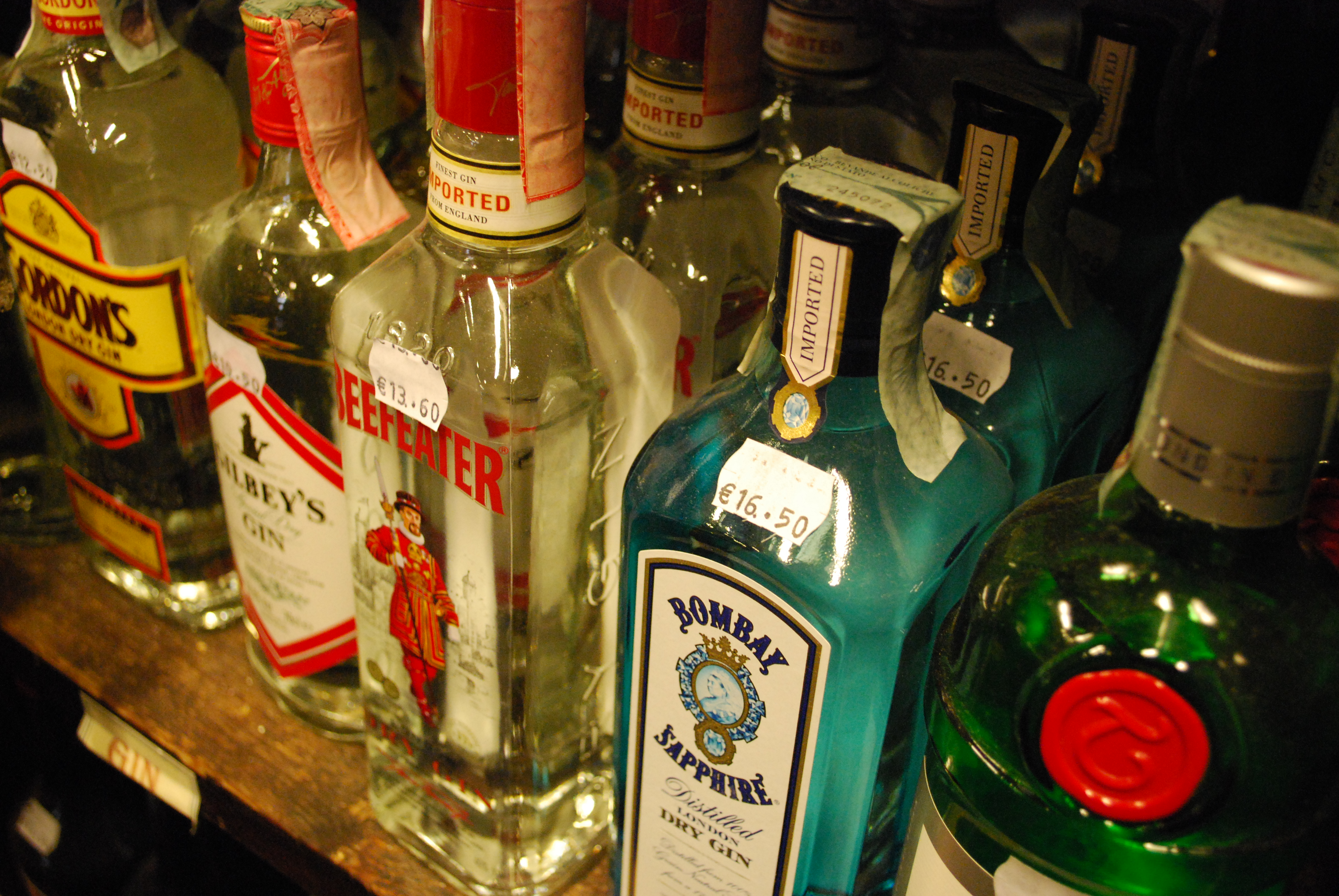 Italian store shelf with gin bottles. Brands from left to right: Gordon's, Gilbey's, Beefeater, Bombay Sapphire, and Tanqueray (2009). The price tags are in Euro.